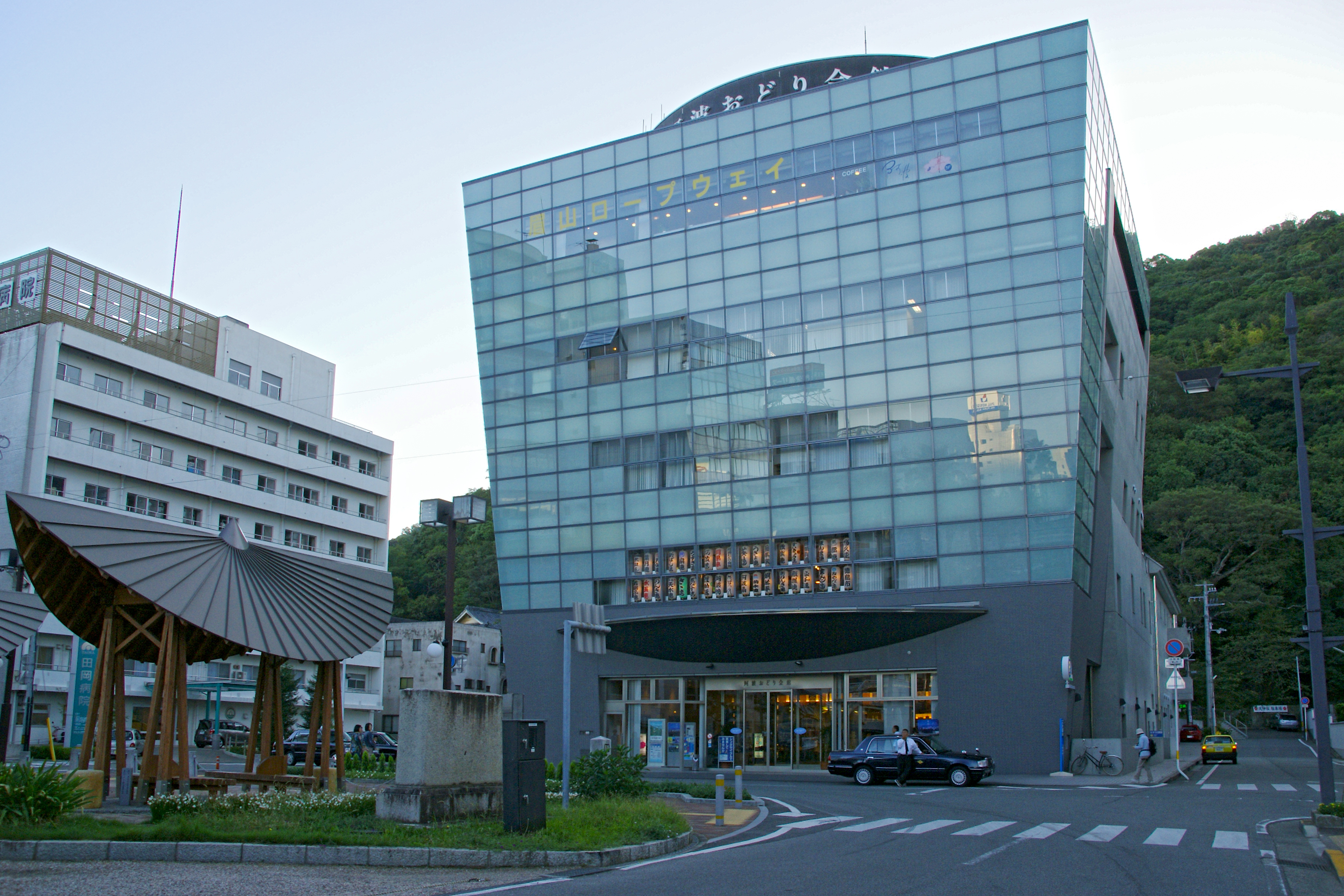 Awa Dance Memorial Hall in Tokushima, Tokushima prefecture, Japan